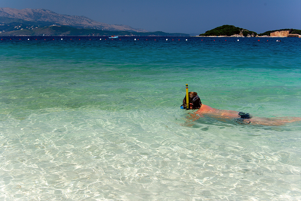 beautiful ksamil